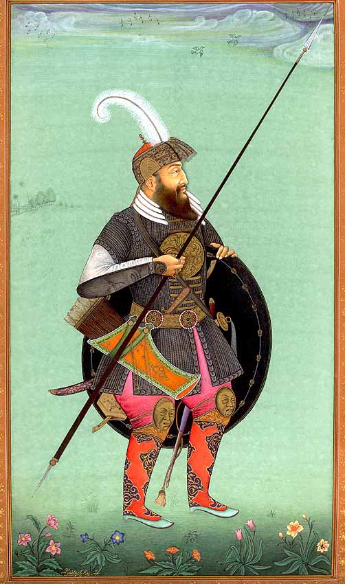 Miniature Painting On Paper From the Padshahnama 9" x 13"